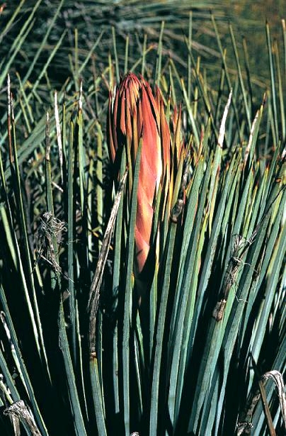 Yucca whipplei